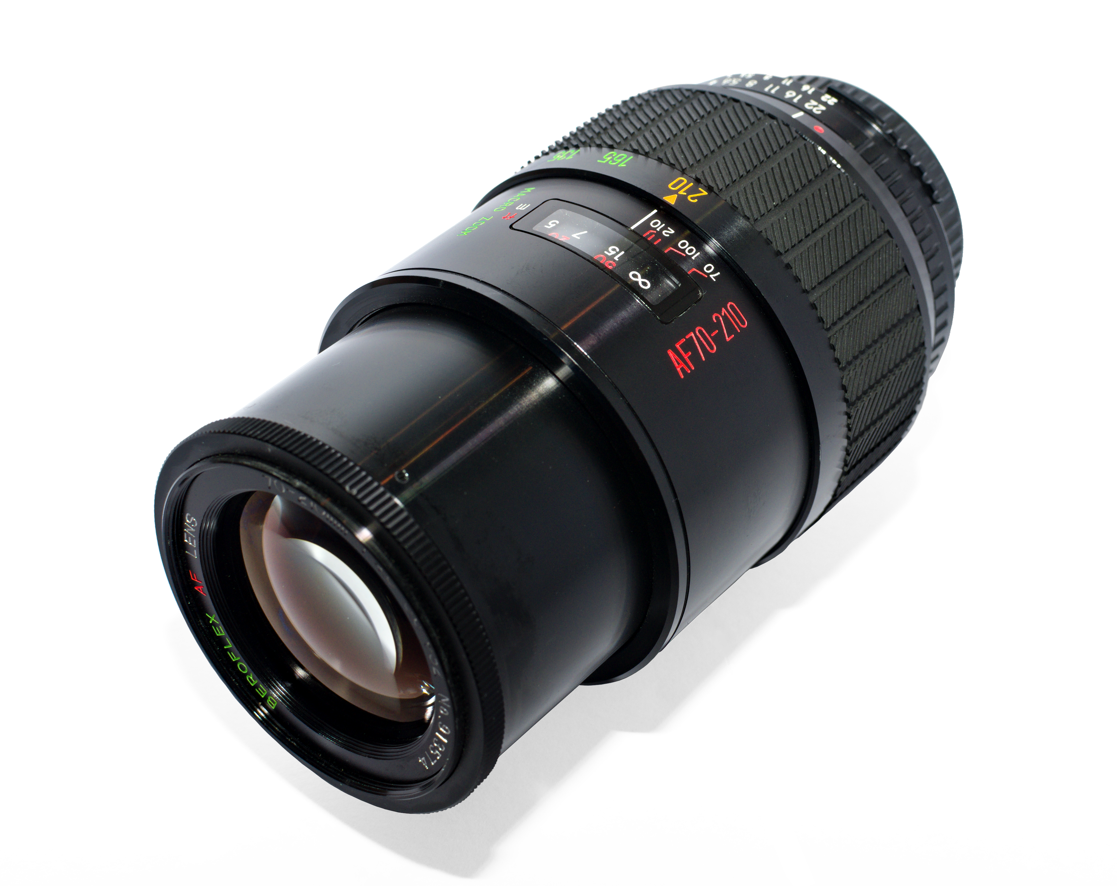 The Beroflex AF70-210 1:4-5.6 is an early third-party AF lens released in ca. 1988, and was designed for the first generation of mainstream SLRs with autofocus capability, specifically Nikon F and Minolta A with screw-drive AF engagement. Versions for Pentax K as well as Canon EF are claimed to exist, but evidence is lacking. Beroflex was a West German reseller of cameras and photography-related gear imported primarily from East Germany, though not exclusively, and the actual manufacturer is Samyang of South Korea.The lens has a 70 to 210 mm focal range and a minimum focus distance of 1.1 meters. The rotating front element is threaded for a 52 mm lens hood or filter. Weight comes in at about 520 grams with both end caps. On Nikon bodies, the lens relies on the camera's in-body AF motor and consequently cannot autofocus on cheaper models in the D3xxx or D5xxx lineup. It also predates the AF-D standard and exposure therefore may not be as accurate in certain situations such as when using fill flash. Furthermore, the electronic interface was imperfectly reverse-engineered, rendering the Beroflex incompatible with some Nikon DSLRs made after 2009 or so. Lens ID was copied from the Nikkor AF 70-210mm 1:4-5.6.